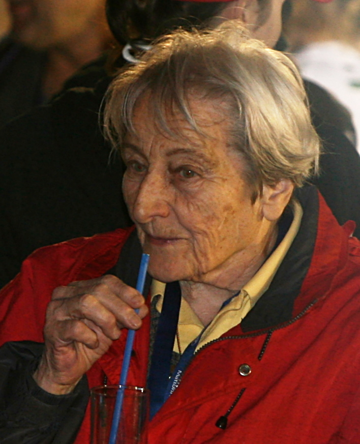 Dana Zátopková, shortly before starting 5 km adidas Women's Race at Prague's Old Town Square